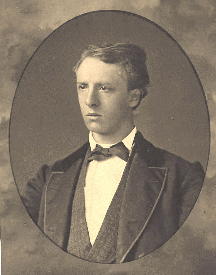 Cabinet card for physician, banker and two-term Girard mayor Henry Winfield Haldeman (1848-1905). Tentatively dated to 1874-1875.